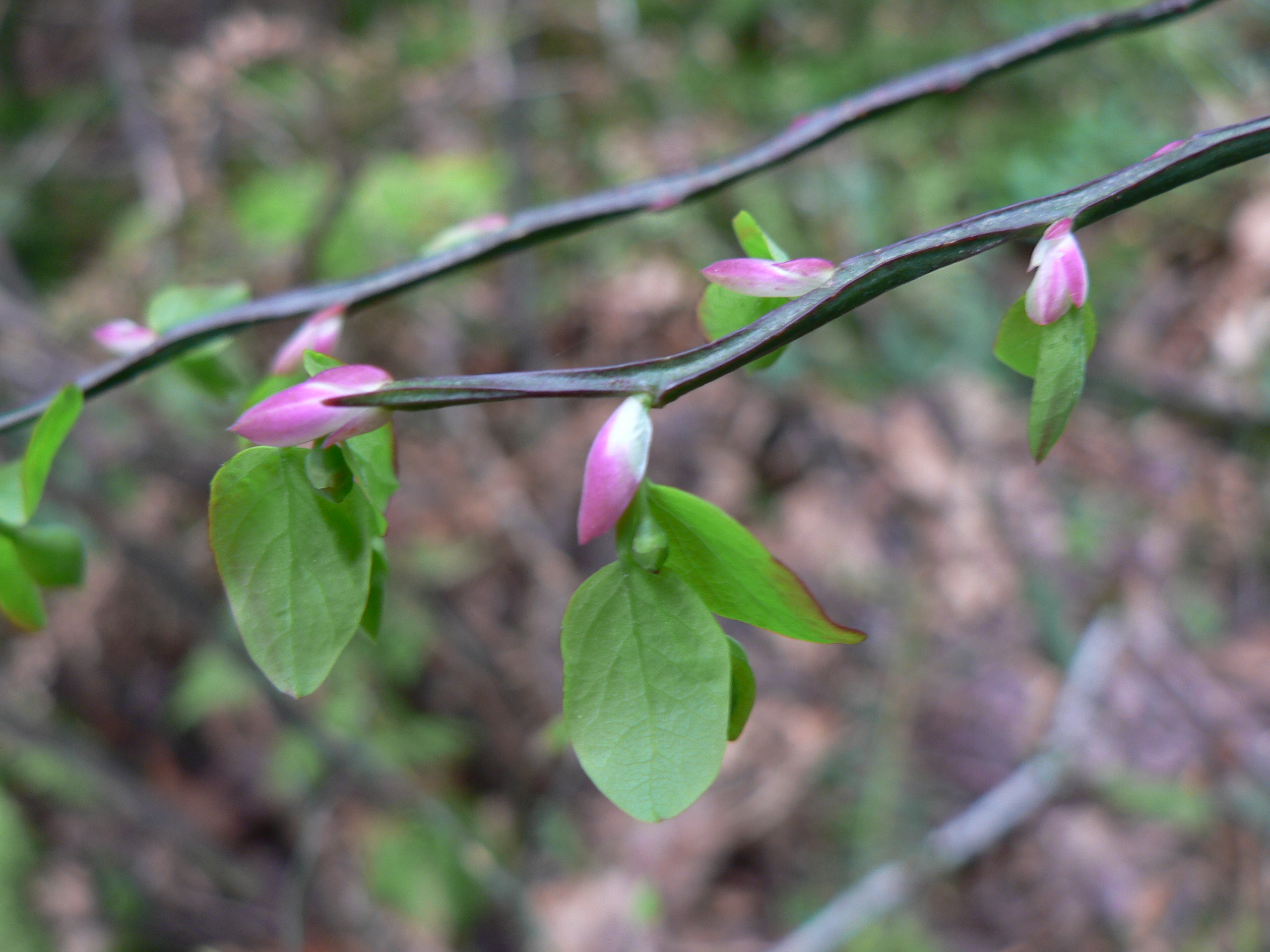 Red Huckleberry leaves